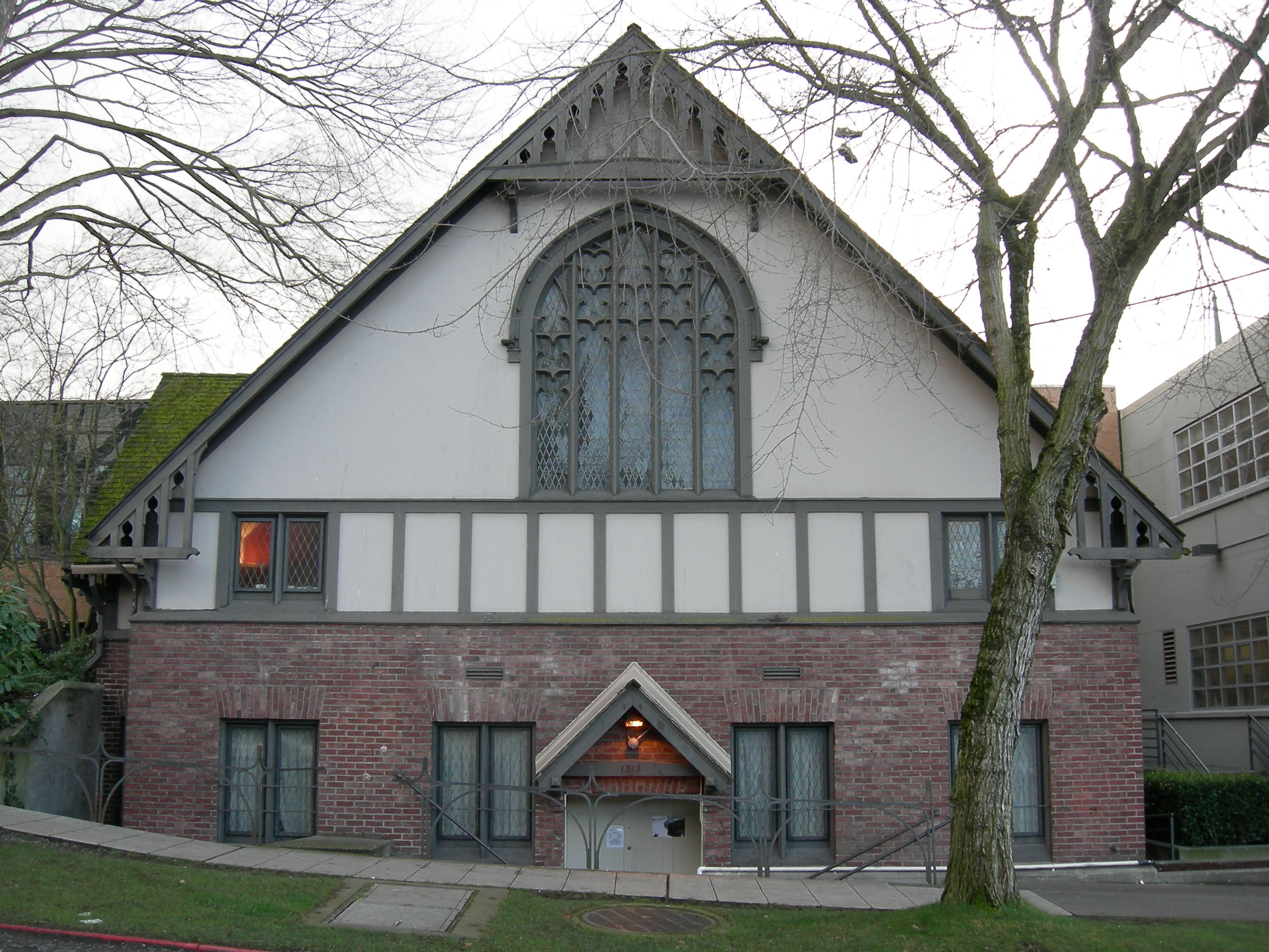 The former Unitarian church that is now the chapel of University Presbyterian Church, 47th Ave NE and NE 16th Street, University District, Seattle, Washington, USA.